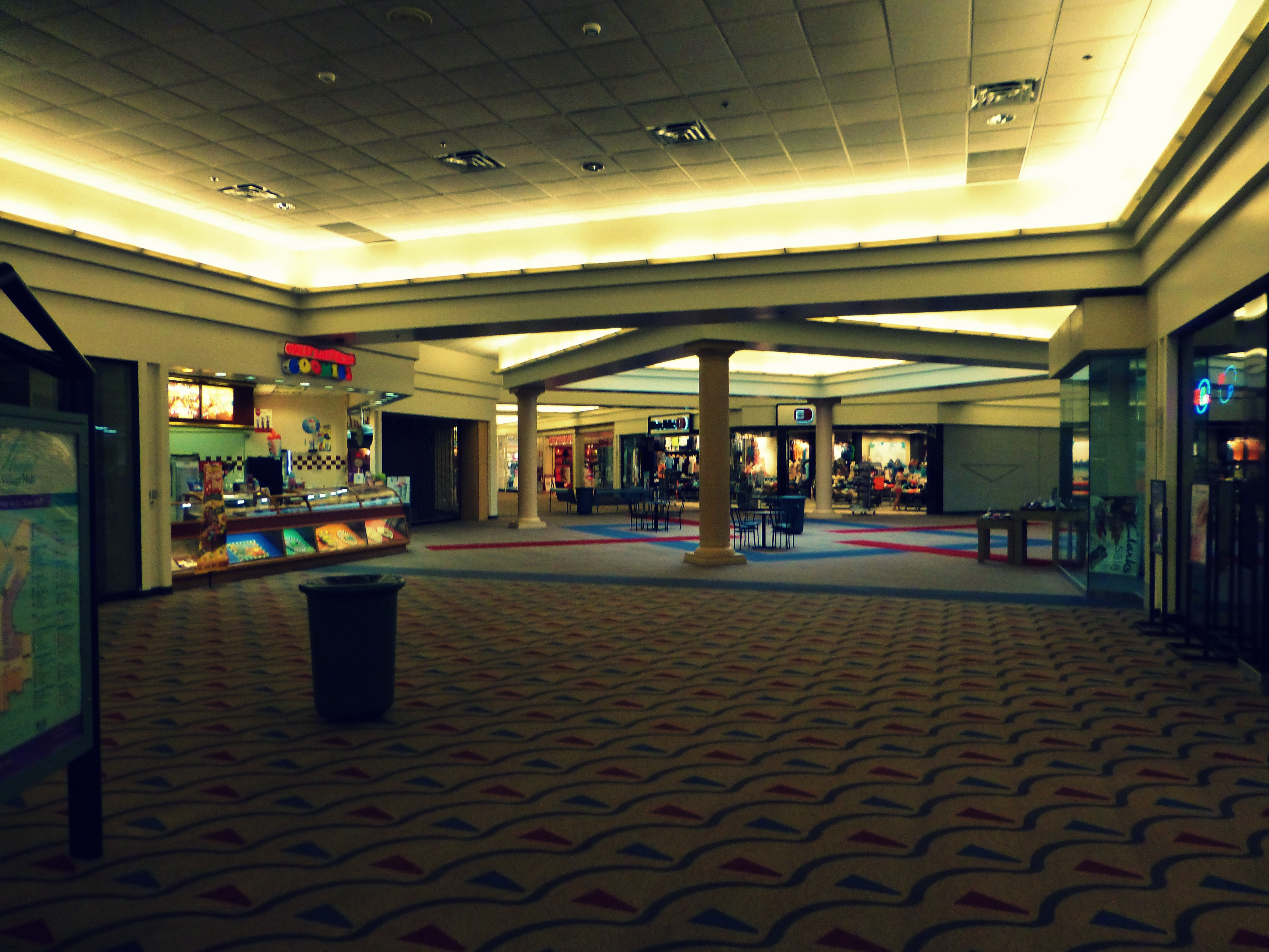 Interior of Findlay Village Mall, March 2014.